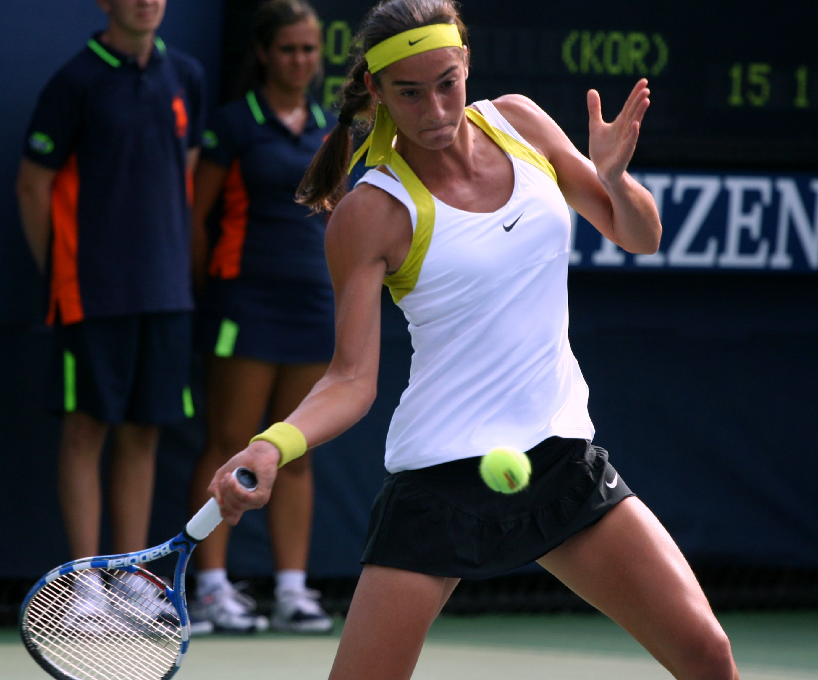 U.S. Open Juniors Sunday, Sept. 4, 2011